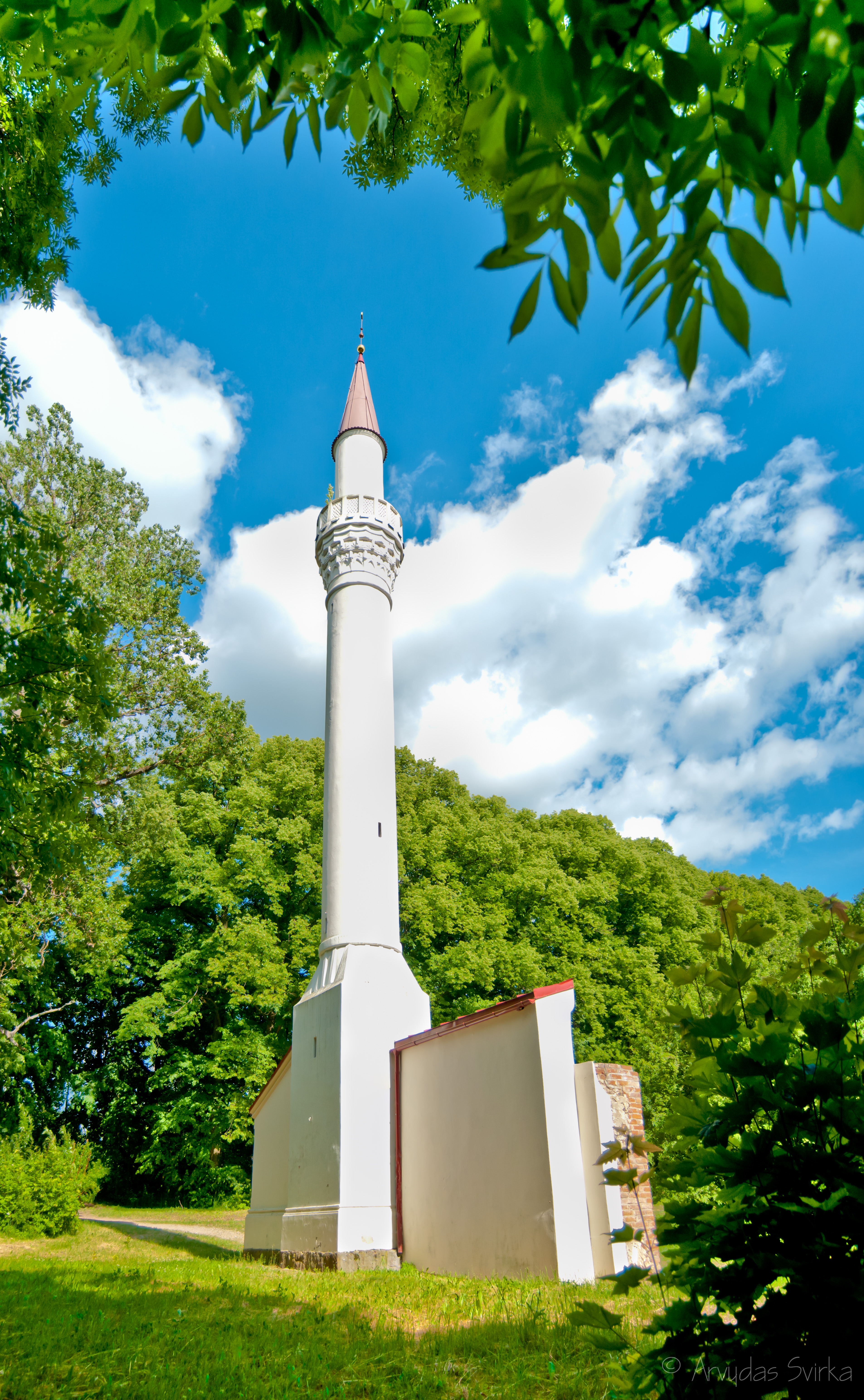 Minaret in Kėdainiai, Lithuania